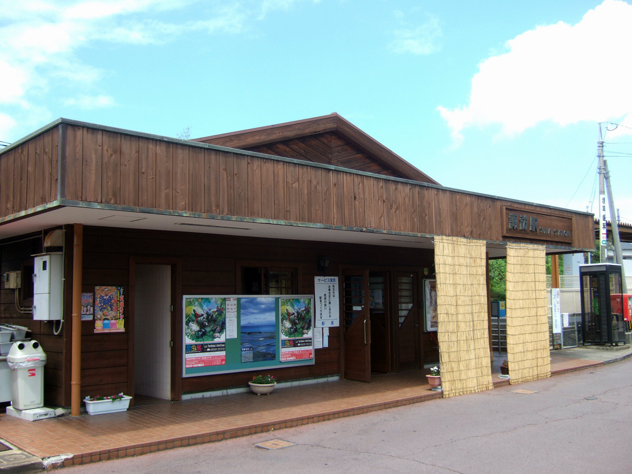 Suwa Station（JR-Kyushu Omura Line）